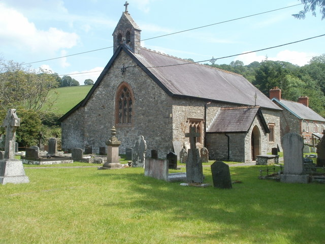 Church of St Cwrdaf, Llanwrda The Welsh name of the church, Eglwys St Cwrdaf, is shown on the church board. The church, located near the northern edge of the village, is medieval and may predate the Norman Conquest. Grade II listed in 1999. A local legend is that the churchyard is the final resting place of Owain Glyndŵr, the last native Welshman to be Prince of Wales.